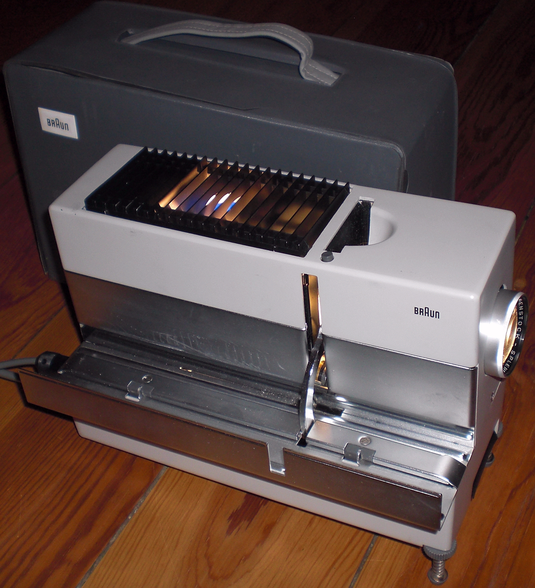 D40 straight tray slide projector manufactured by German electronics and domestic appliances company Braun AG. Design by Dieter Rams, cable remote control. Like most of the D-series slide projectors, this one is equipped with a Rodenstock Splendar 1:2.8/100 mm projection lens.